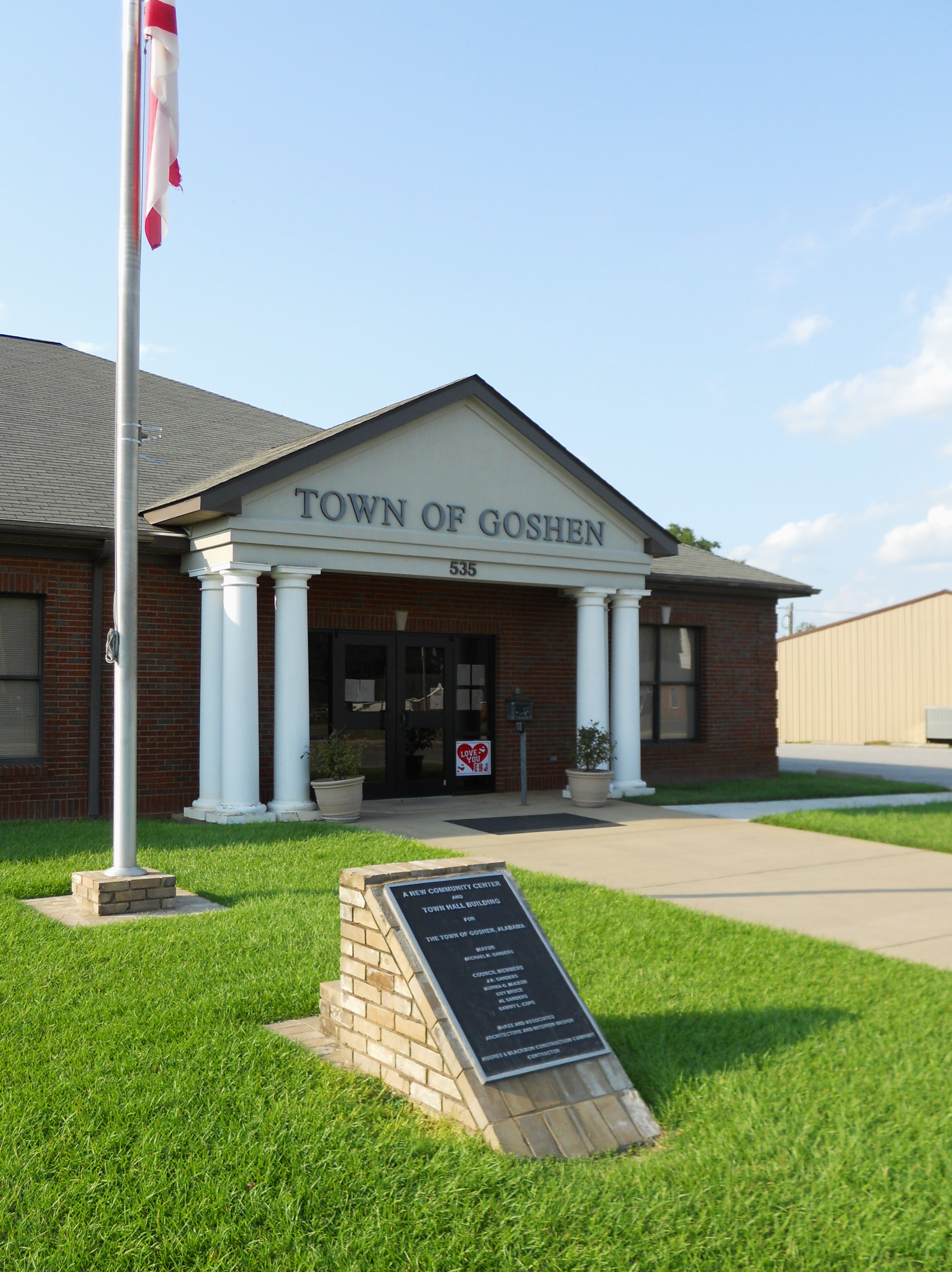 This is a photograph of the new town hall and community center in Goshen, Alabama.